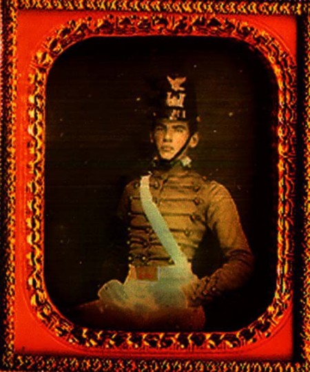 Horace Porter (April 15, 1837 – May 29, 1921) U.S. soldier, private secretary to General and later president U.S. Grant. Later in life he was U.S. Ambassador to France from 1897 to 1905. This image pictures him a student at West Point c.1856